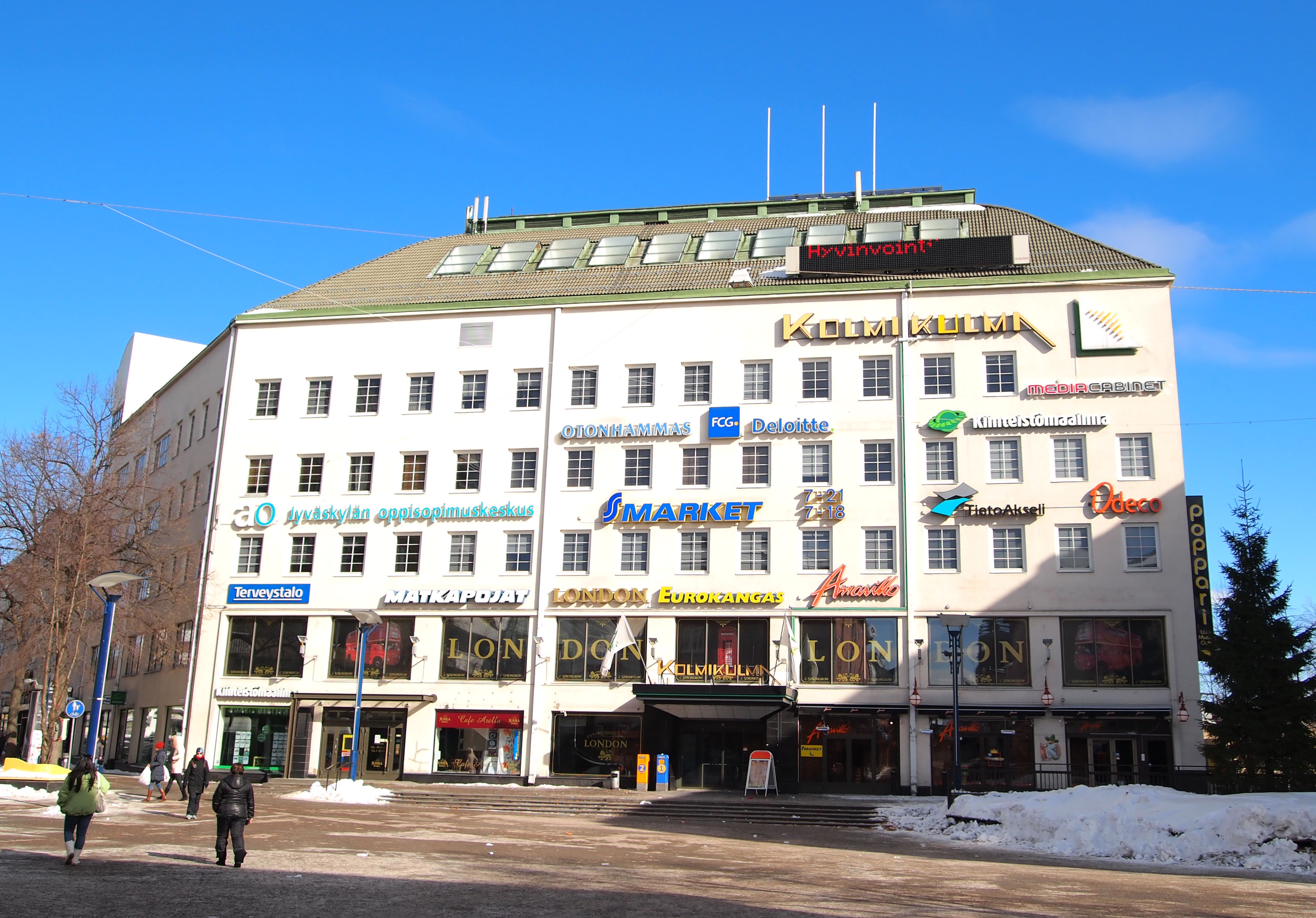 Kolmikulma in Jyväskylä.